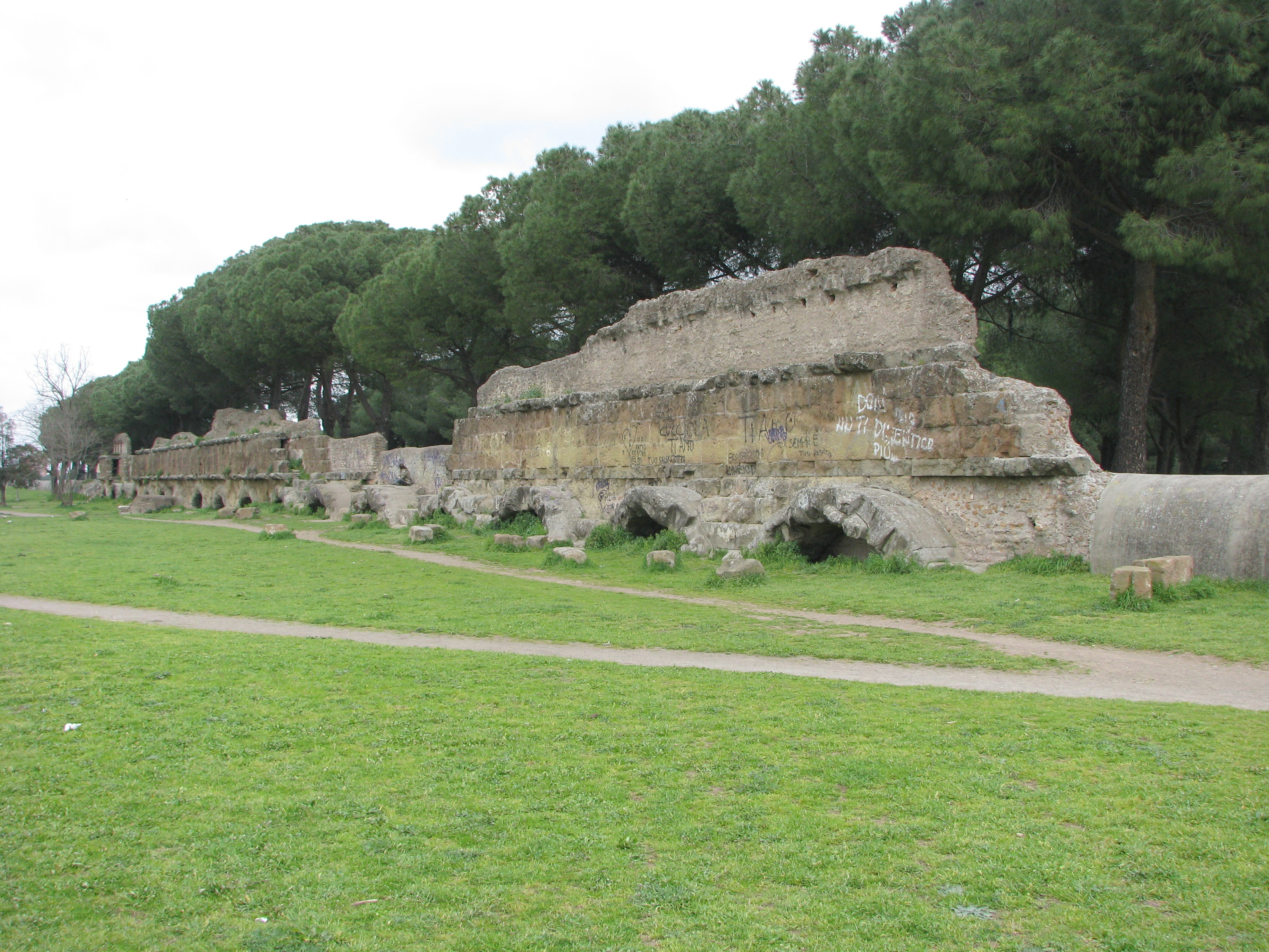 Remains of the stone arches and the channel of the Aqua Marcia (140 BC), with the brick Aqua Julia (125 BC) and minor brick remains of the Aqua Tepula (33 BC) on top. The concrete at the bottom part is the more modern Aqua Felice from 1568. Location near Romavecchia, Via Lemonia, Rome, Italy